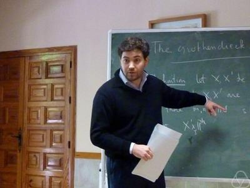 Julien Sebag, Conference on Singularities El Escorial, Spain, 2010